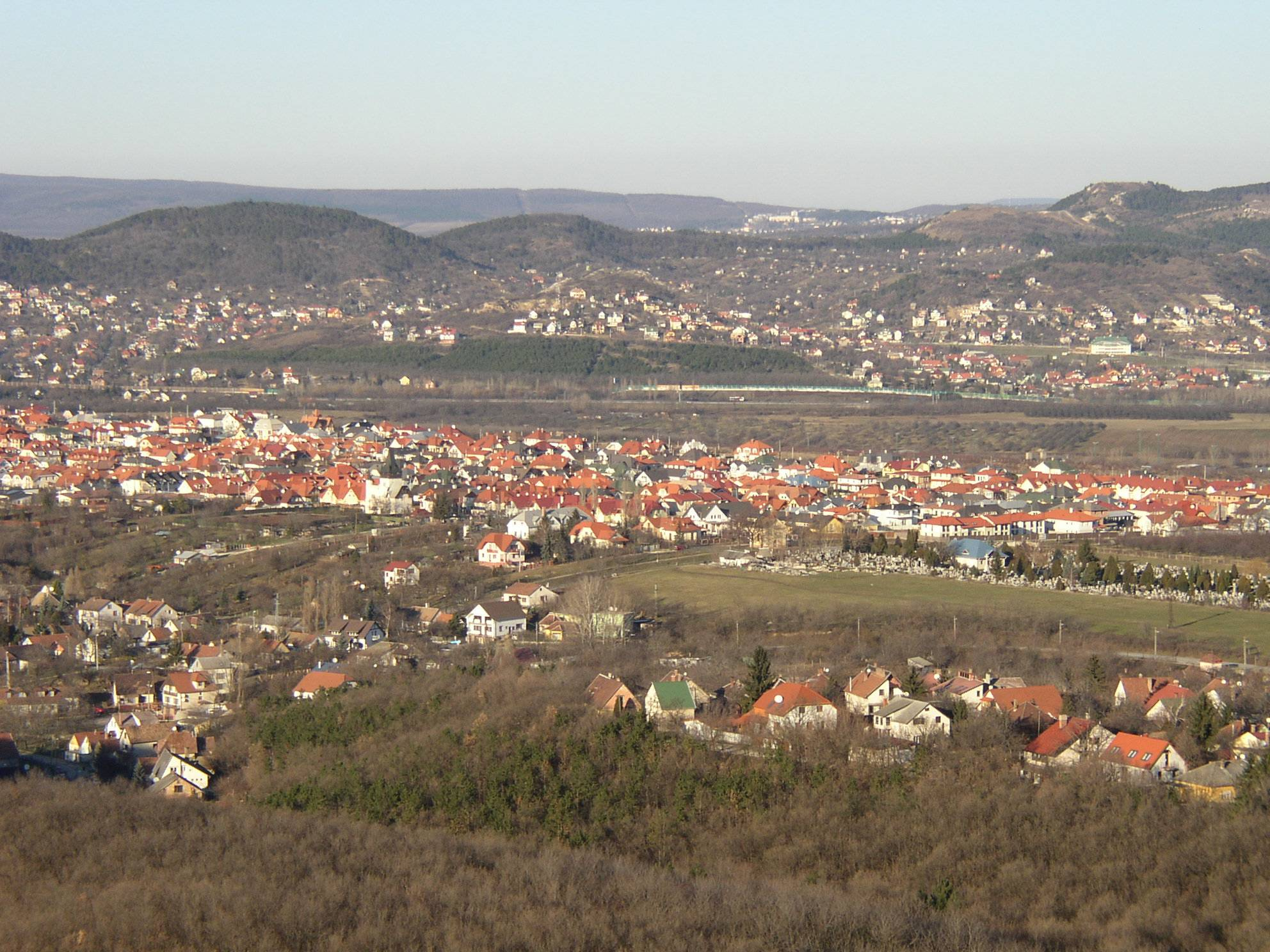 Tükör–hegy ("Mirror-hill"), the newest part of Törökbálint